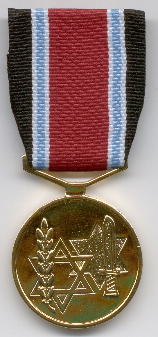 Fighter against the Nazis Medal